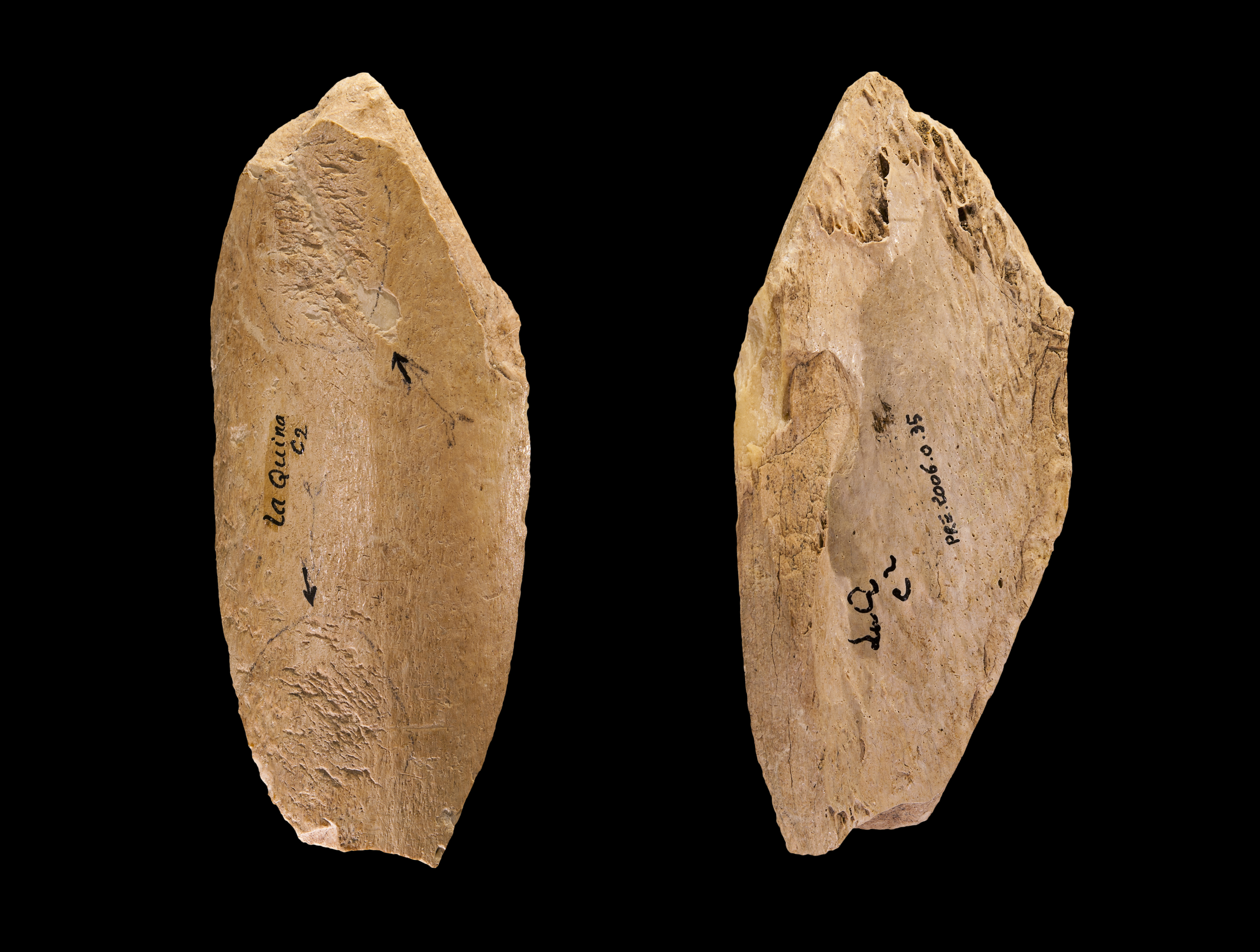 Retoucher with two places percussion on diaphysis fragment. Stage : Middle Paleolithic (Quina Mousterian) (to – 300 000 to - 30 000 Before the Current Era) Locality : La Quina, Gardes-le-Pontaroux, Charente, France Former collection of Léon Henri-Martin (1864 - 1936)) Different views of the same specimen - Muséum of Toulouse MHNT.PRE.2006.0.35 Size : 11.3x4.8x1.2 cm 69.6g